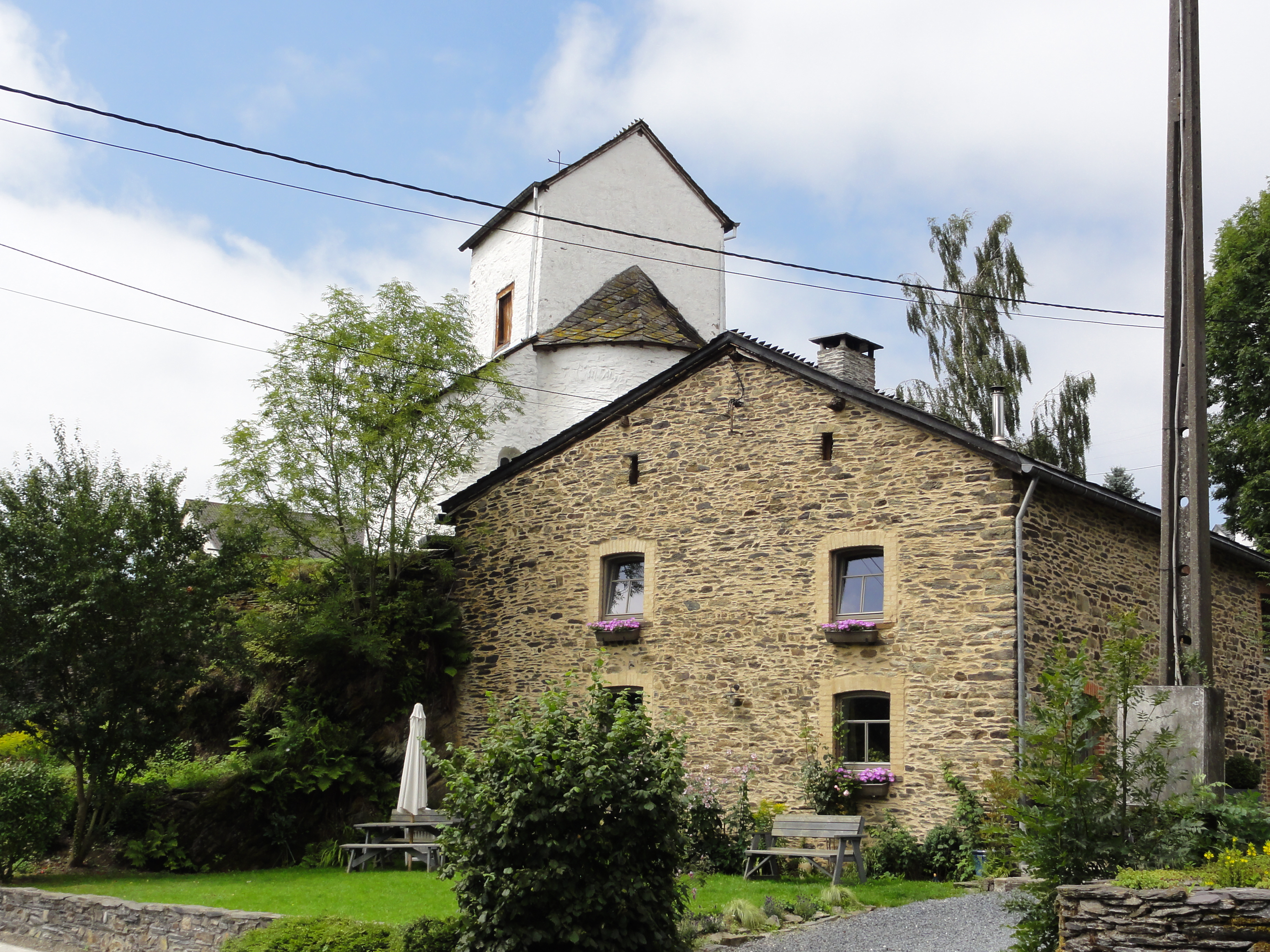 Saint Margaret's church and house in Ollomont, Nadrin, Houffalize, Belgium